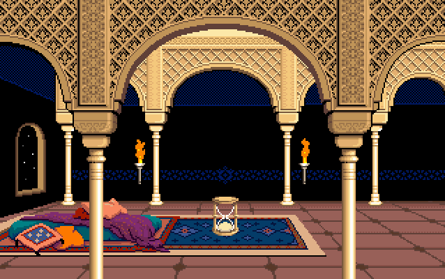 Screenshot from the video game (own work).